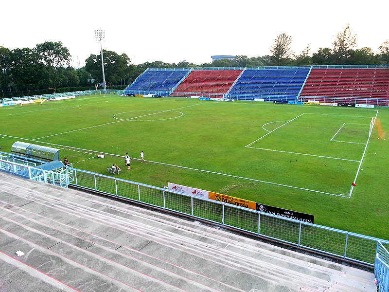 A photo of Pasir Gudang Corporation Stadium taken from the north end of the grandstand, showing the football pitch and the west gallery stand.